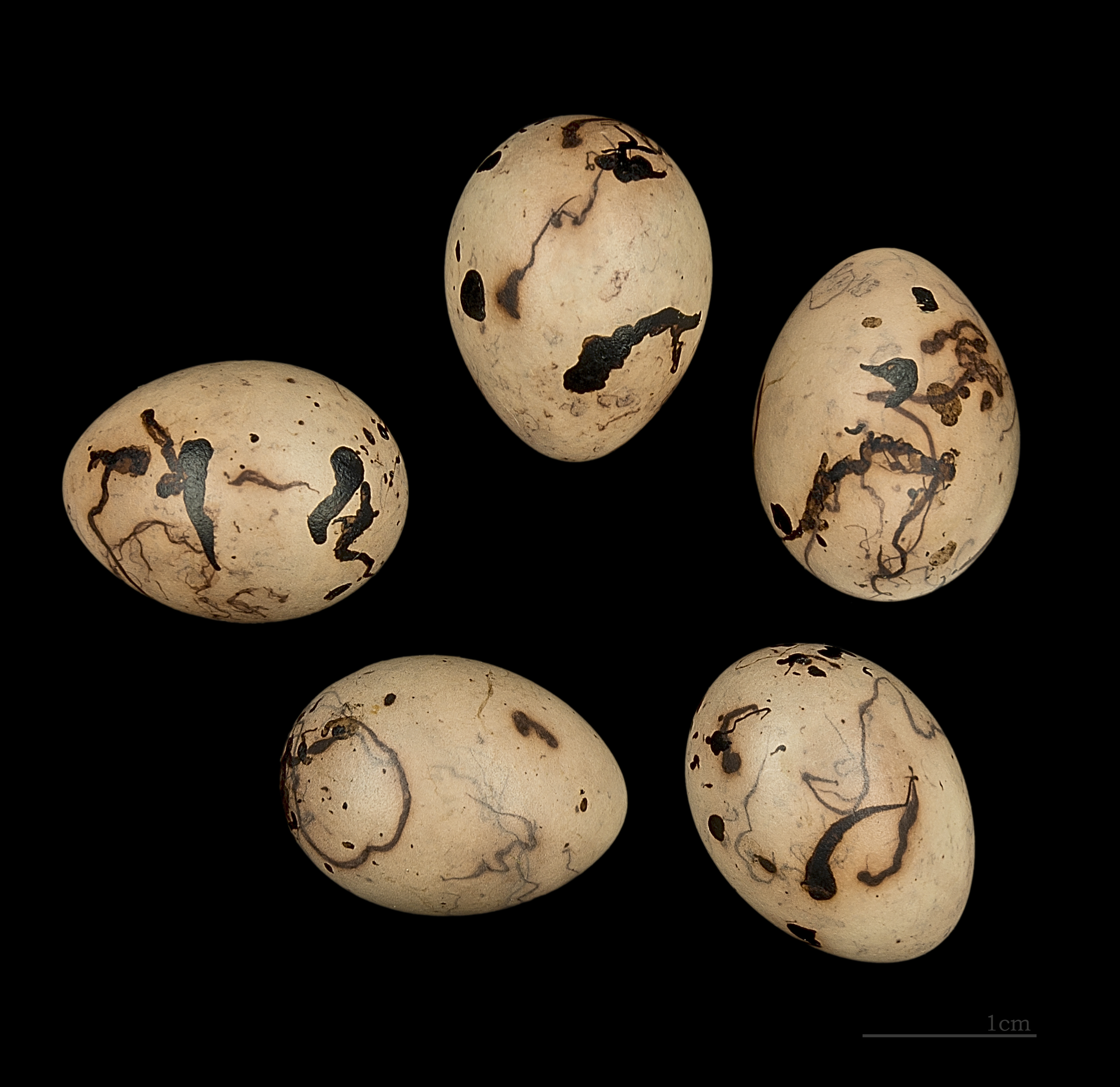 Egg of Common Reed Bunting. Collection of Jacques Perrin de Brichambaut.